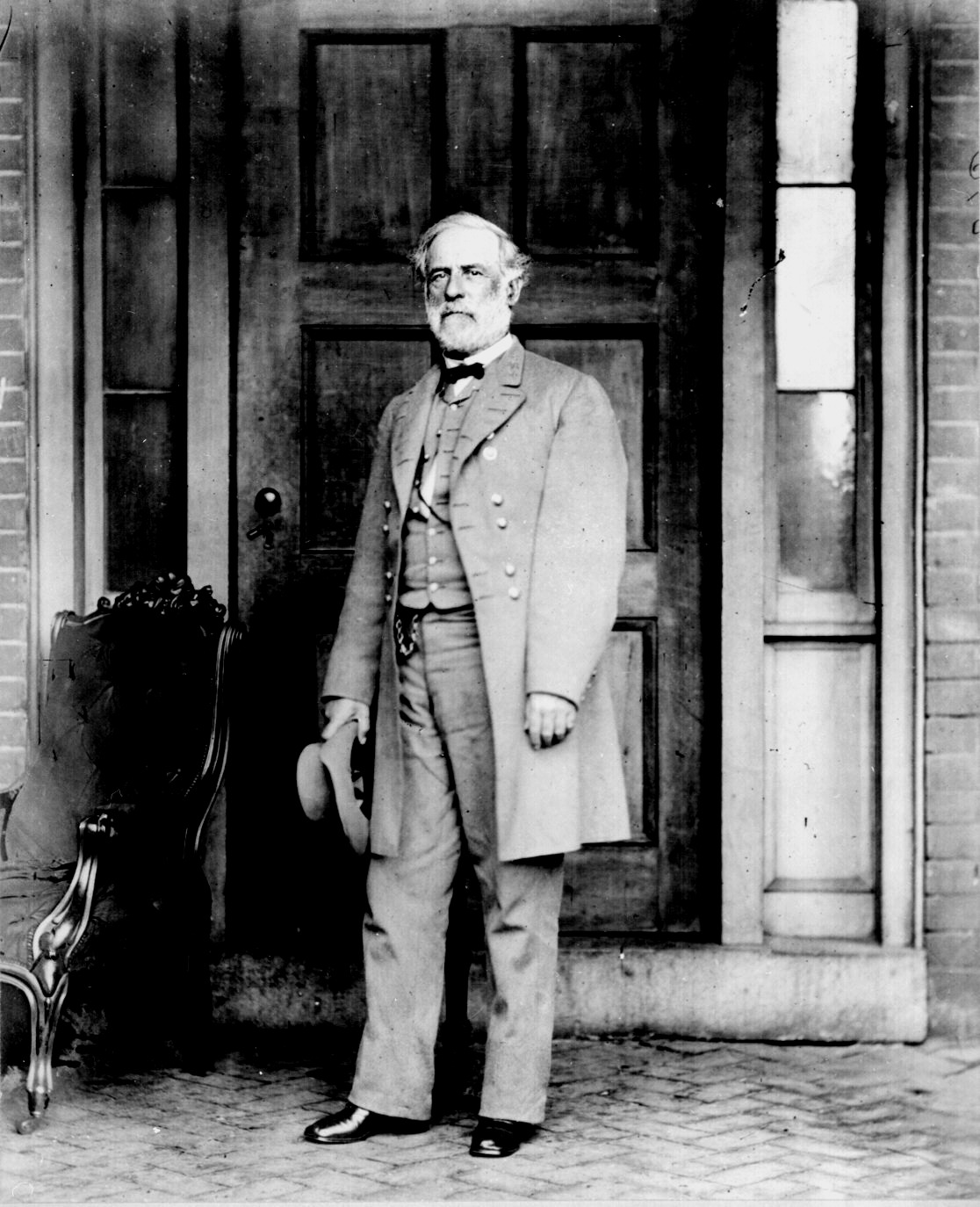 Confederate General Robert E. Lee poses in a late April 1865([1]) portrait taken by Mathew Brady in Richmond, Virginia. Lee's surrender to Union General Ulysses S. Grant at Appomattox Court House on 9 April 1865, soon before this portrait was taken, marked the end of the American Civil War.